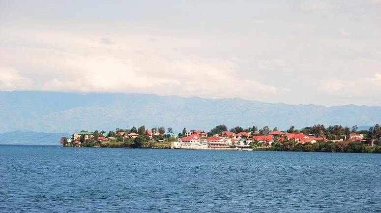 Goma City & Lakeside Lake Kivu, Congo DRC